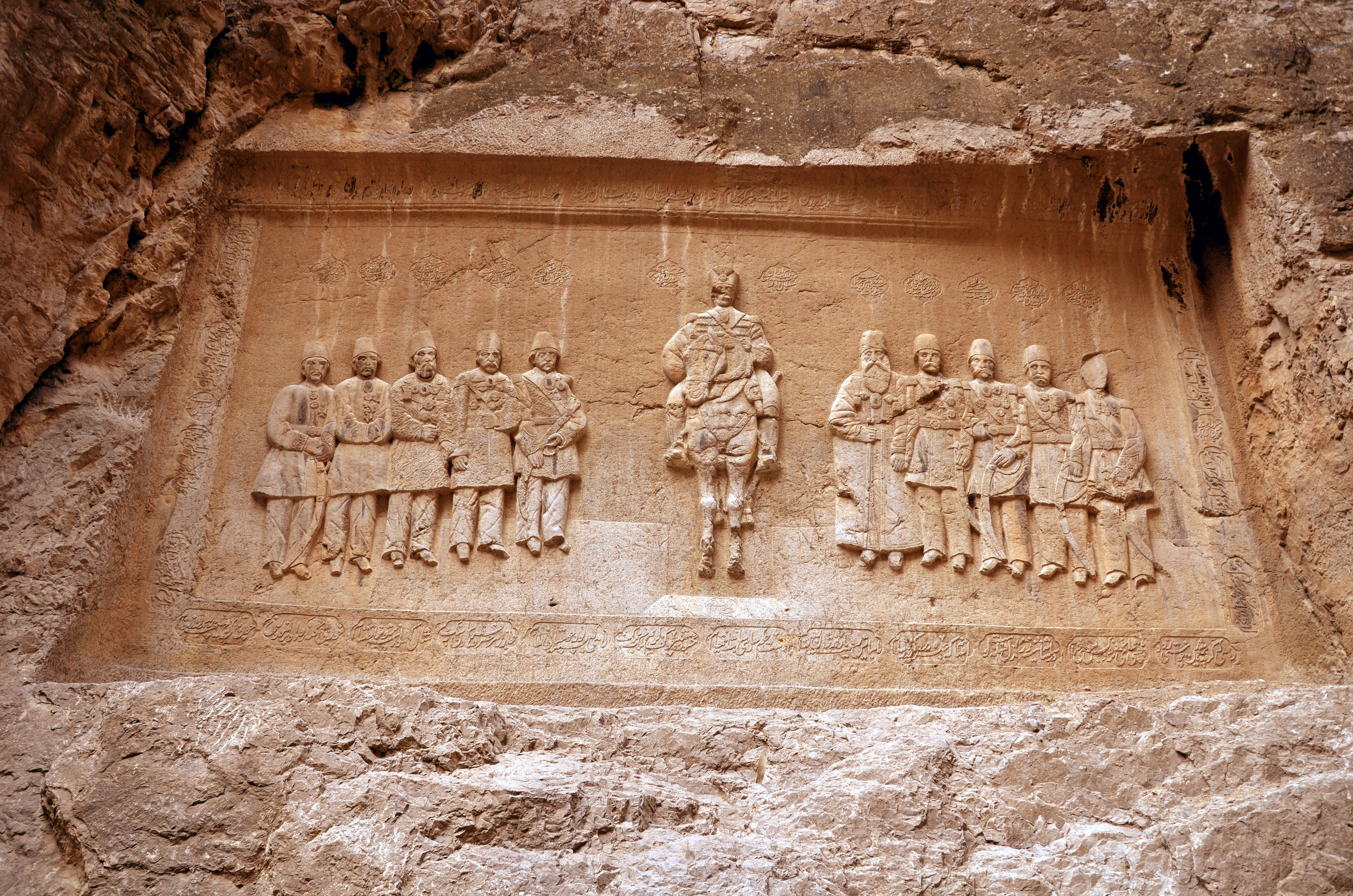 Iran - Haraz Road - Vana - Naseredin Shah's old stony Inscription